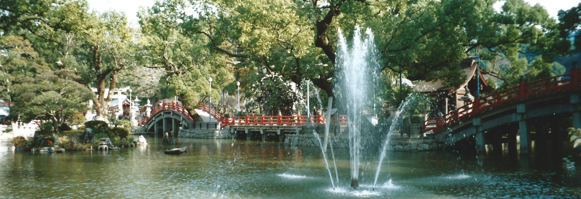 Pond with drum-bridges at Temmangu-shrine at Dazaifu, Kyushu, Japan